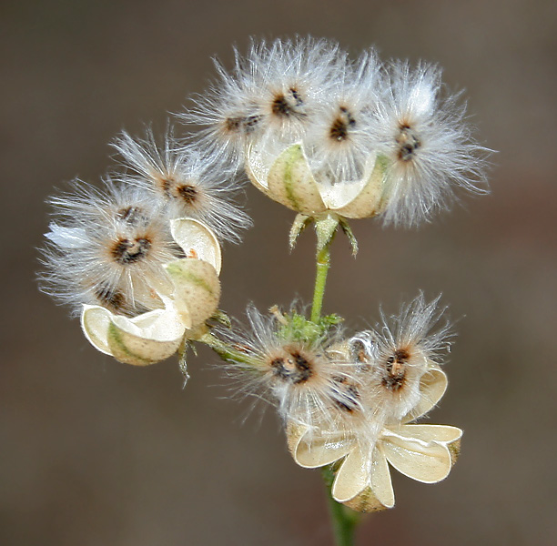 Hibiscus ovalifolius in Hyderabad, India.